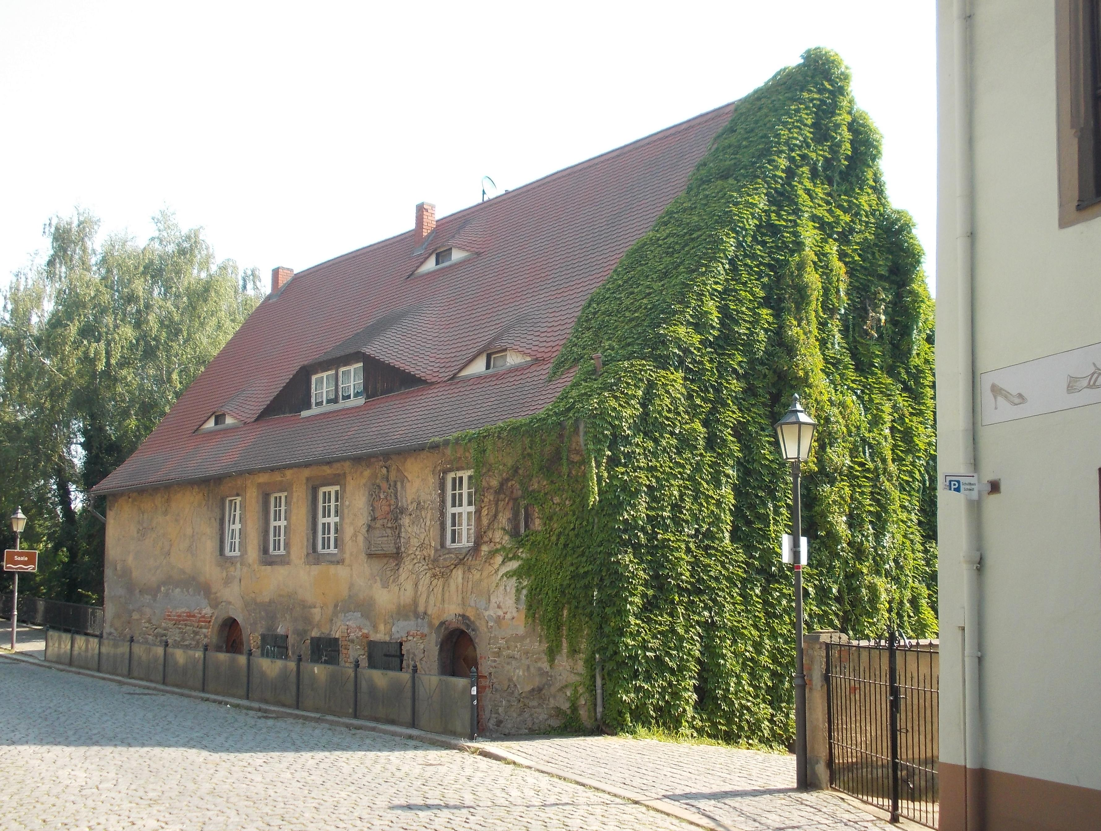 Neumarkt Mill in Merseburg (district: Saalekreis, Saxony-Anhalt)